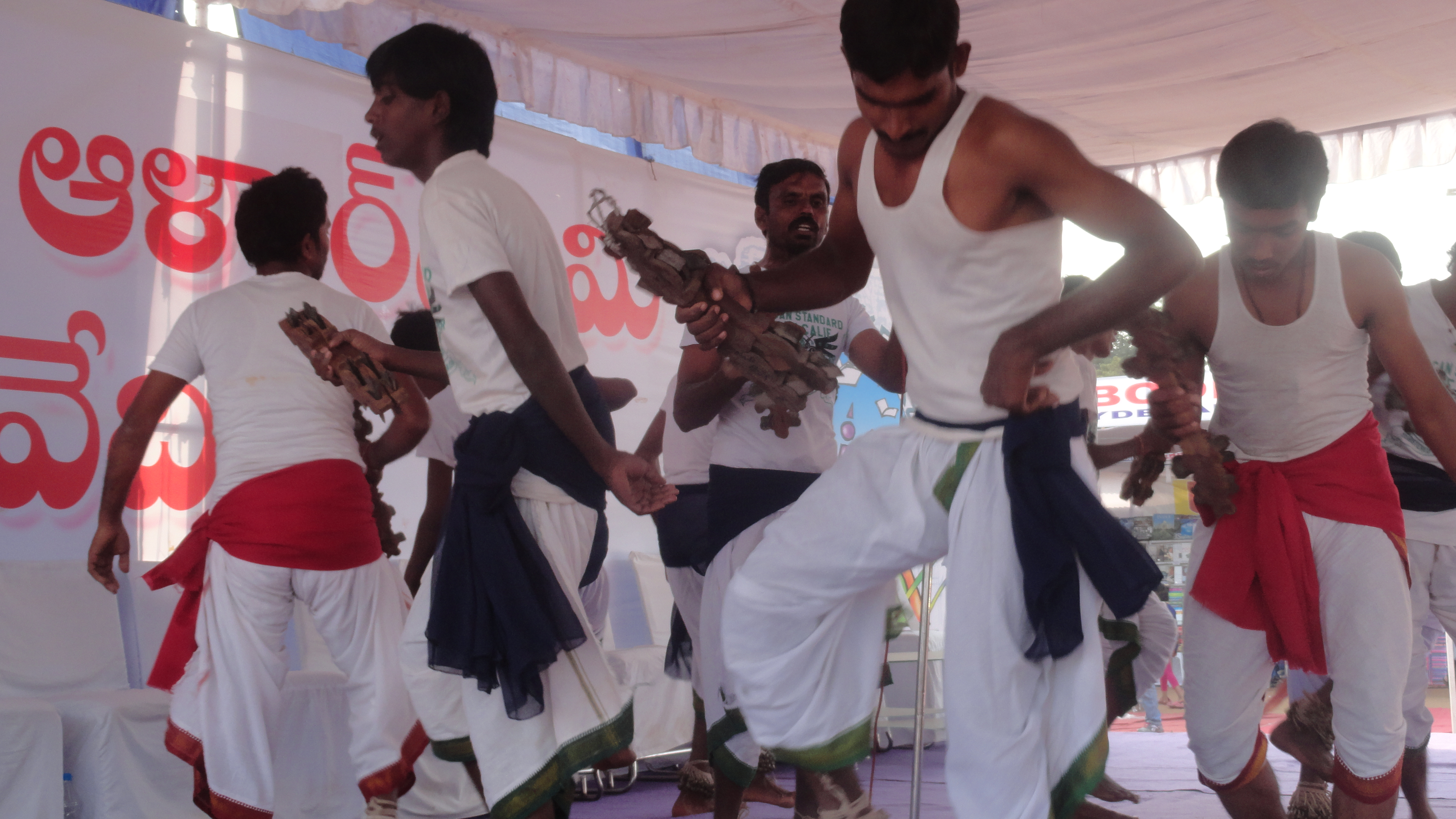 Devotional dance at HYD book fair